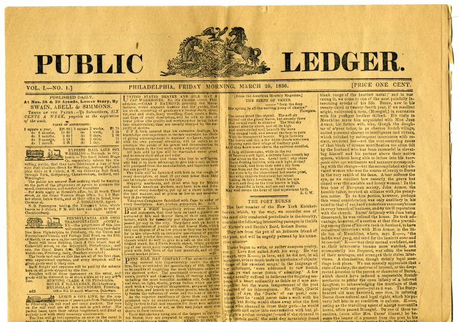 1836 Public Domain image of newspaper cover.